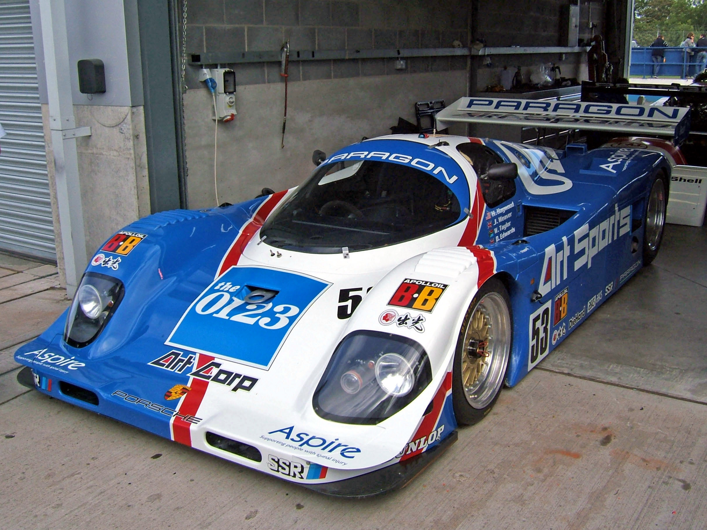 A Porsche 962C in Vern Schuppan's 0123/Art Sports livery, waiting in the pit garages during the VSCC SeeRed race meeting, Donington Park, September 2007.